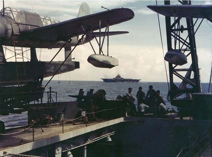 View on the fantail of the U.S. Navy light cruiser USS Mobile (CL-63), looking across her open aircraft hangar hatch toward the starboard quarter, during the October 1943 raid on Marcus Island. Vought OS2U-3 Kingfisher floatplanes are on her catapults. The plane on the starboard catapult has a small bomb under its wing. USS Yorktown (CV-10) is in the center distance.